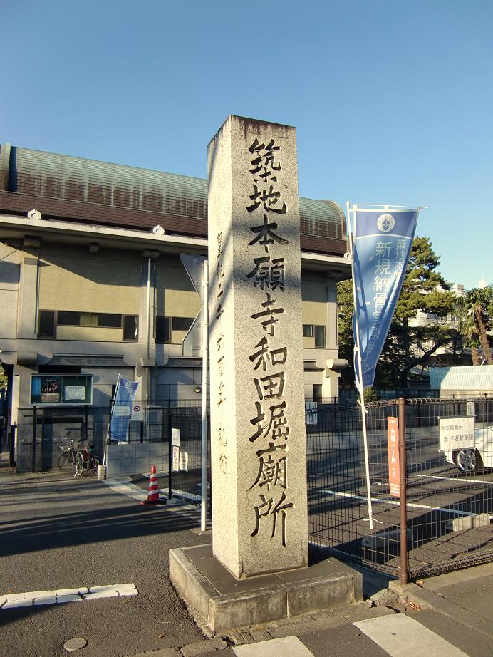 Tsukiji-Hongan-ji Wadabori byosho entrance, Tokyo Japan